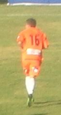 Charles Aránguiz